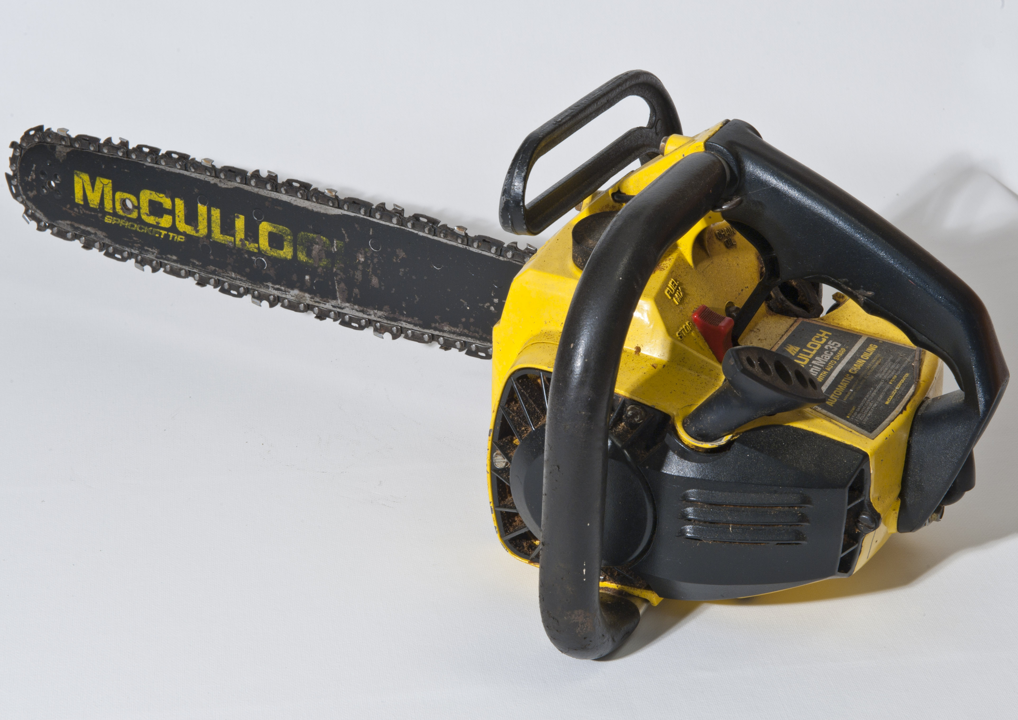 Chainsaw McCulloch